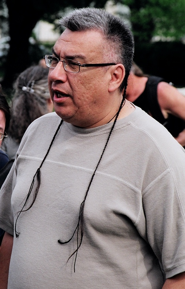 Chief Donny Morris - On of the "KI6" - Imprisoned members of Kitchenuhmaykoosib Inninuwug First Nation, speaking at a protest at Queen's Park, Toronto, Ontario while on temporary parole.